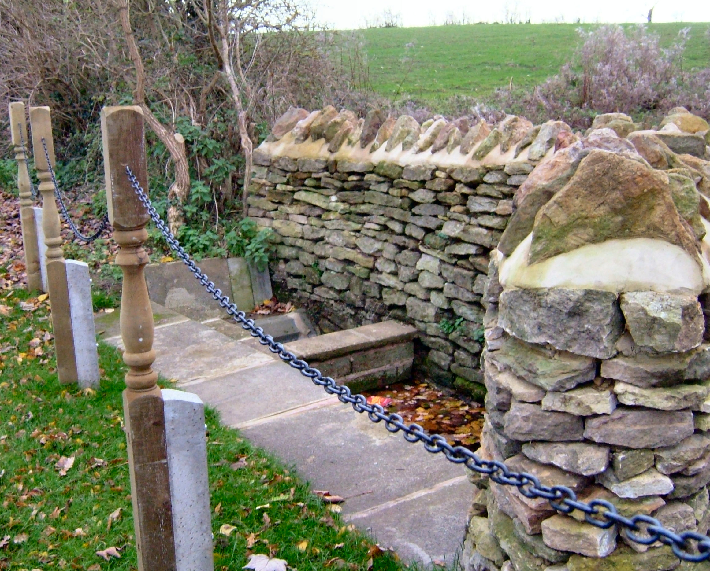 Collingtree, UK